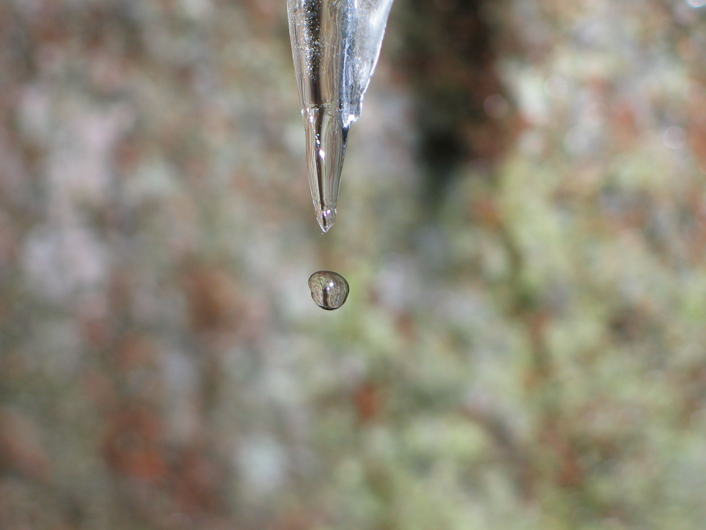 A drop of water falling from a piece of ice. Uppland, Sweden.